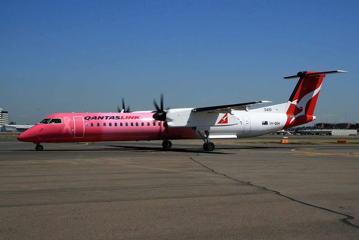 This Bombardier Dash 8 Q400 is in the 2007 Qantas colour scheme, with a special pink paint scheme on the forward fuselage to raise awareness of breast cancer. Digital photo of VH-QOH taken by YSSYguy at Sydney Airport on 11 October 2007 & uploaded for use in the Sunstate Airlines article.